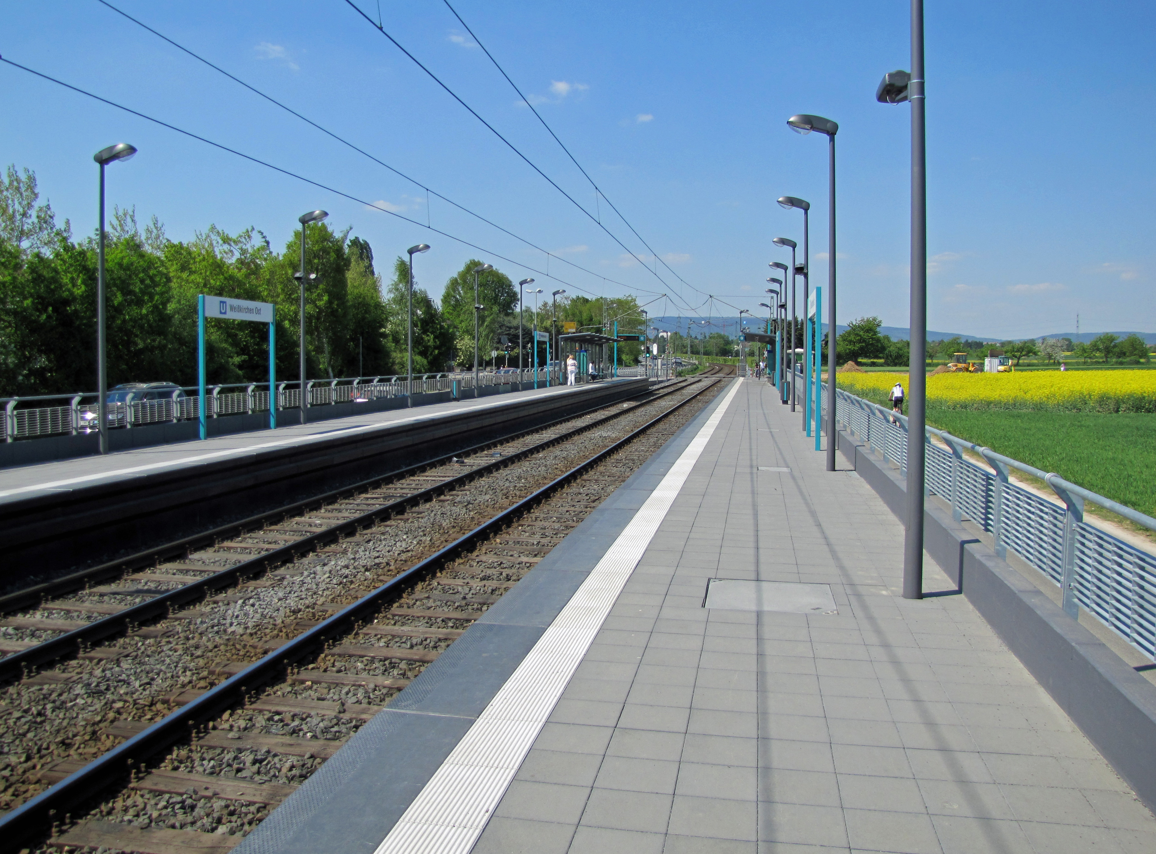 Stop Weisskirchen Ost at the line U3, Hesse, Germany.